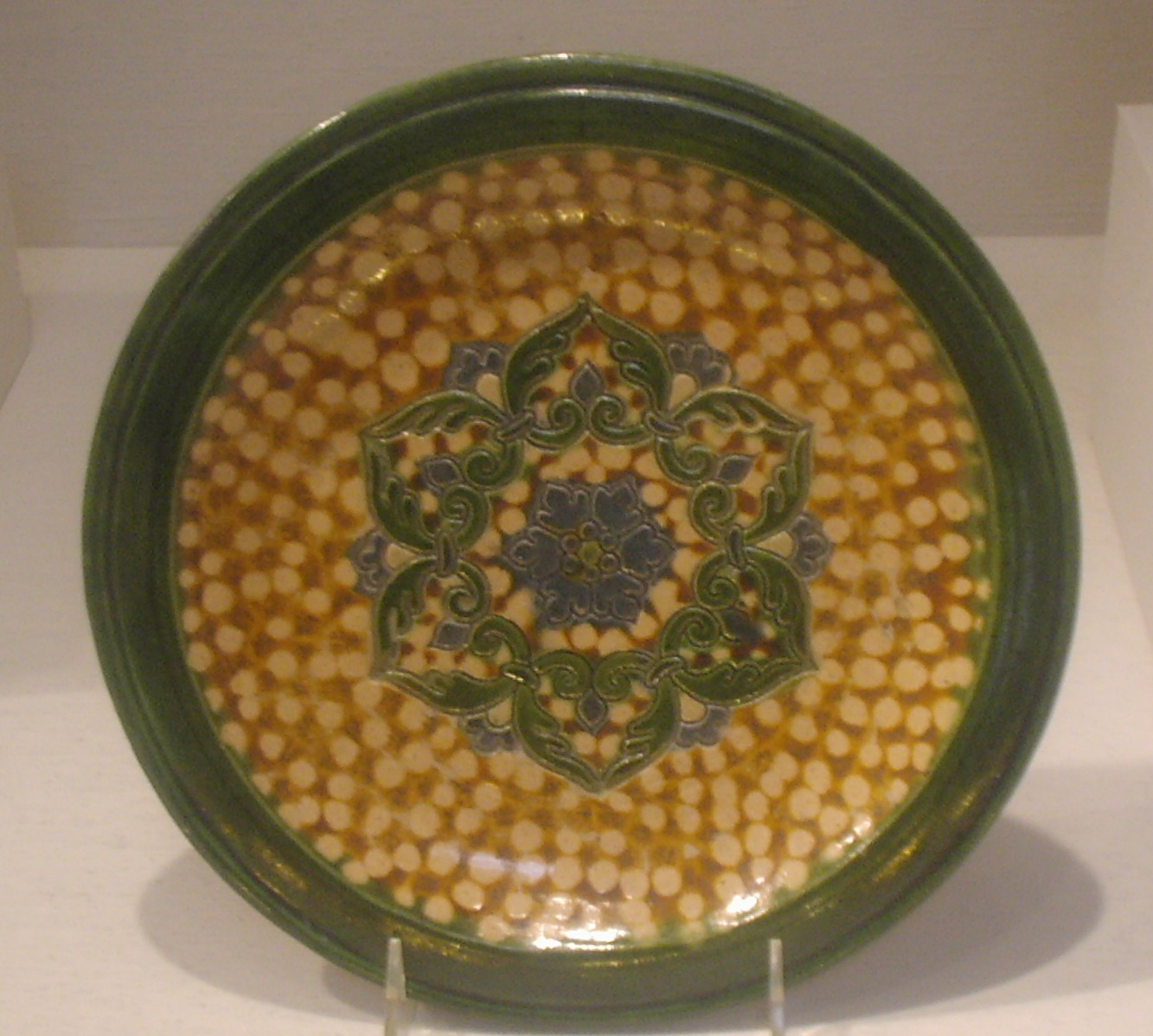 A Chinese sancai glazed earthenware dish from the Tang Dynasty (618–907), dated late 7th century to early half of the 8th century. It has an impressed decoration under the glaze, while its three-legged shape and design is seen in similar works of silver. It has a rosette medallion with six palmette forms which perhaps were derived from motifs of Central Asian metalwork and ceramics.